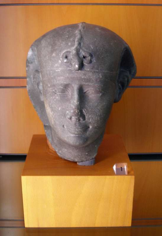 Head of Nectanebo II